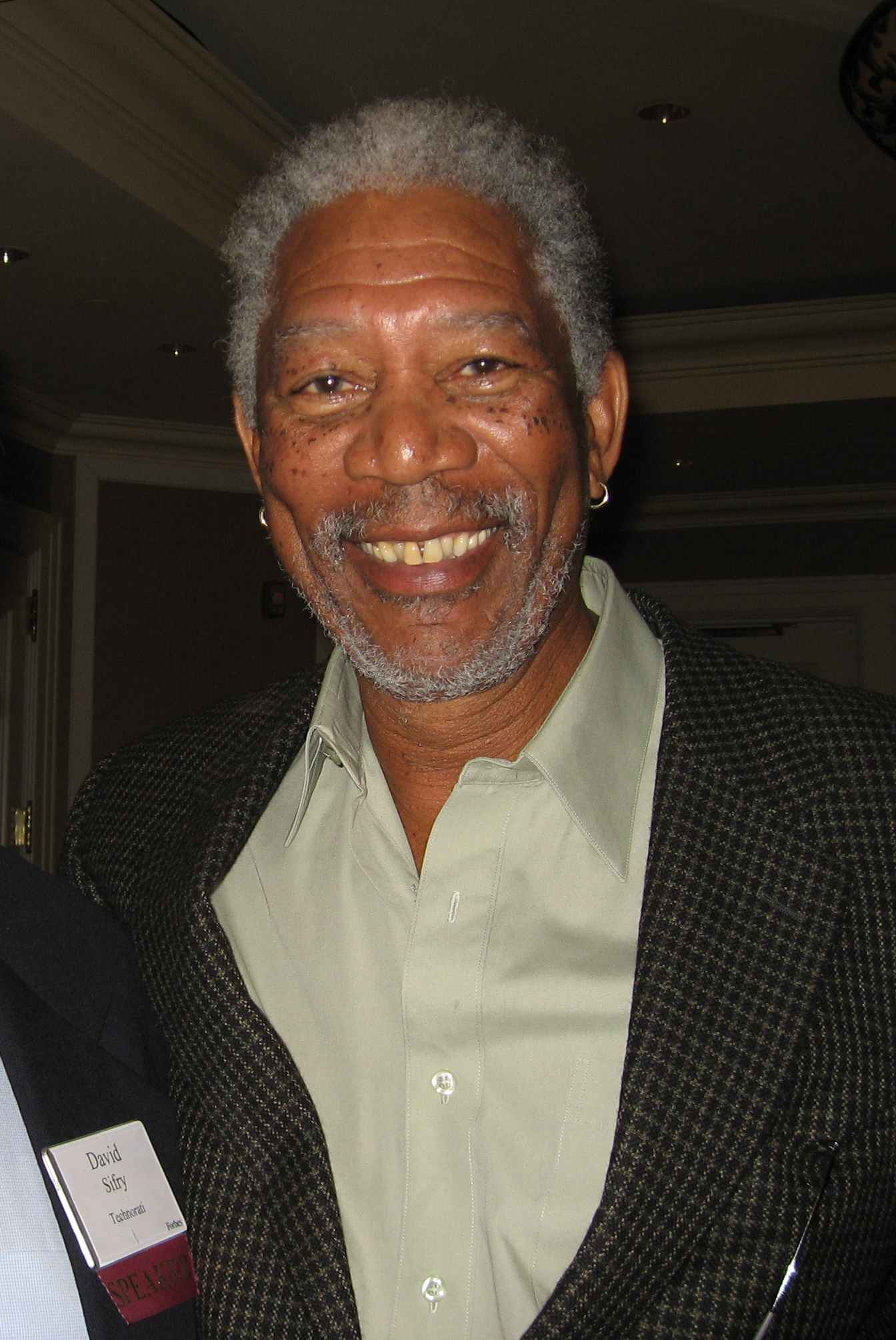 Morgan Freeman, Academy Award-winning American actor and film director at the Forbes MEET Conference in LA.